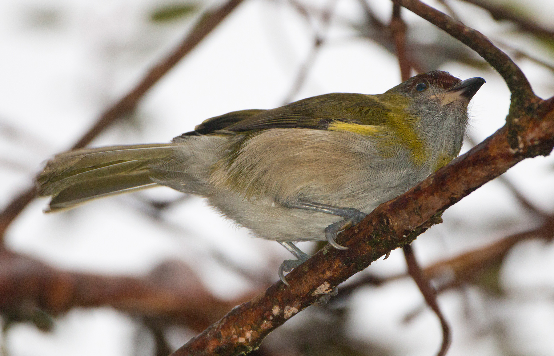 Black-billed-Peppershrike, San Isidro Lodge, Ecuador